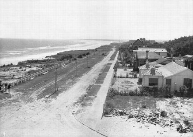 Ferrocarril La Floresta